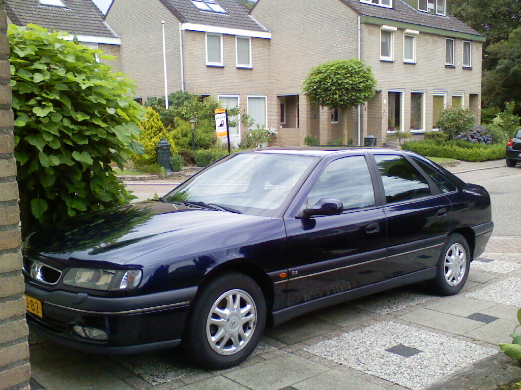 Picture of a 1997 Renault Safrane 2.5